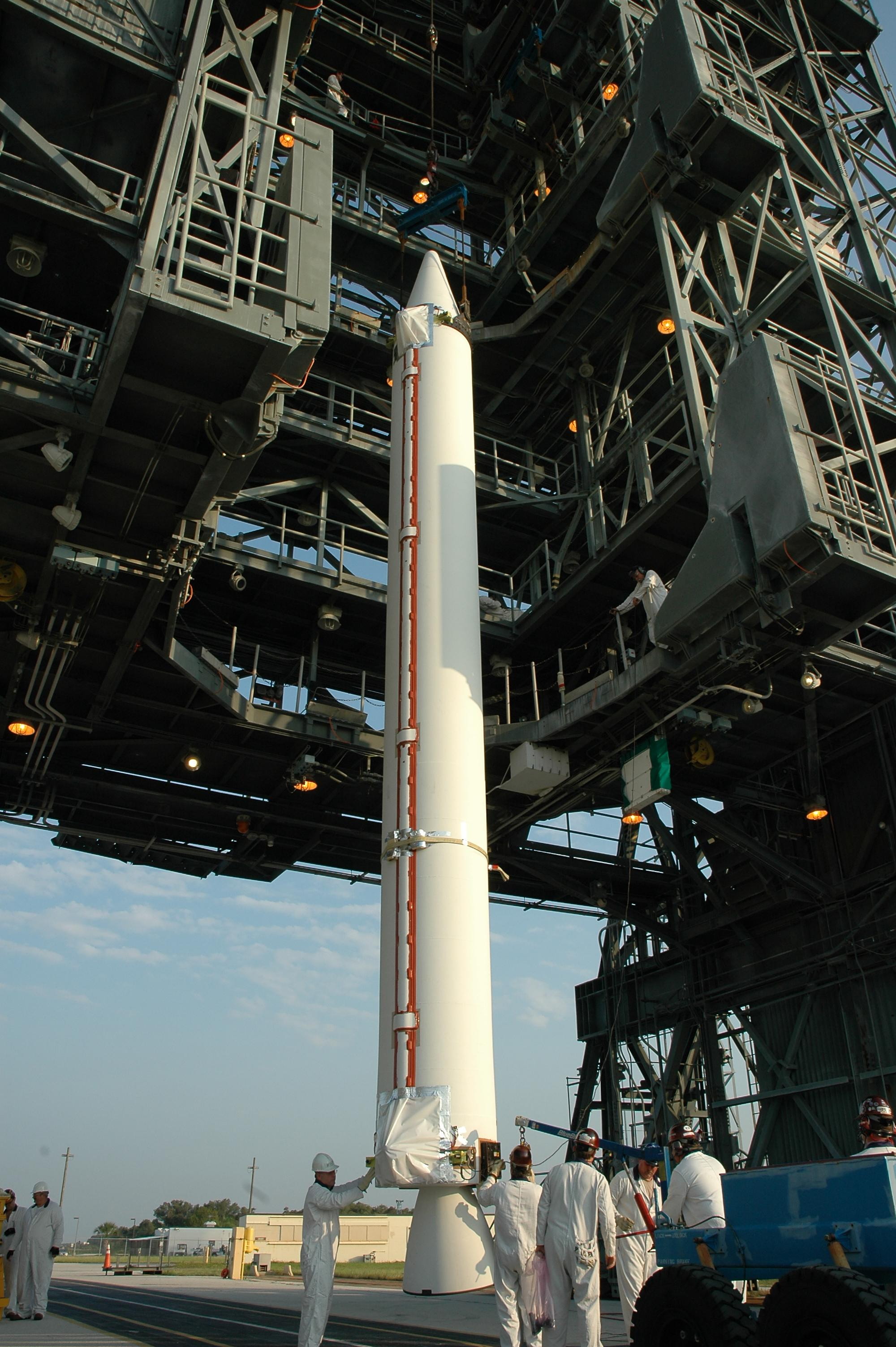 A GEM 46 Booster for the launch of the Dawn spaceprobe on Board of an Delta II 7925H rocket